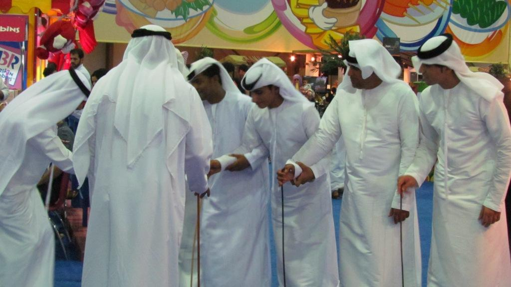 Yowalah -traditional dance of UAE - A shot from venue of Modhesh World at dubai airport expo